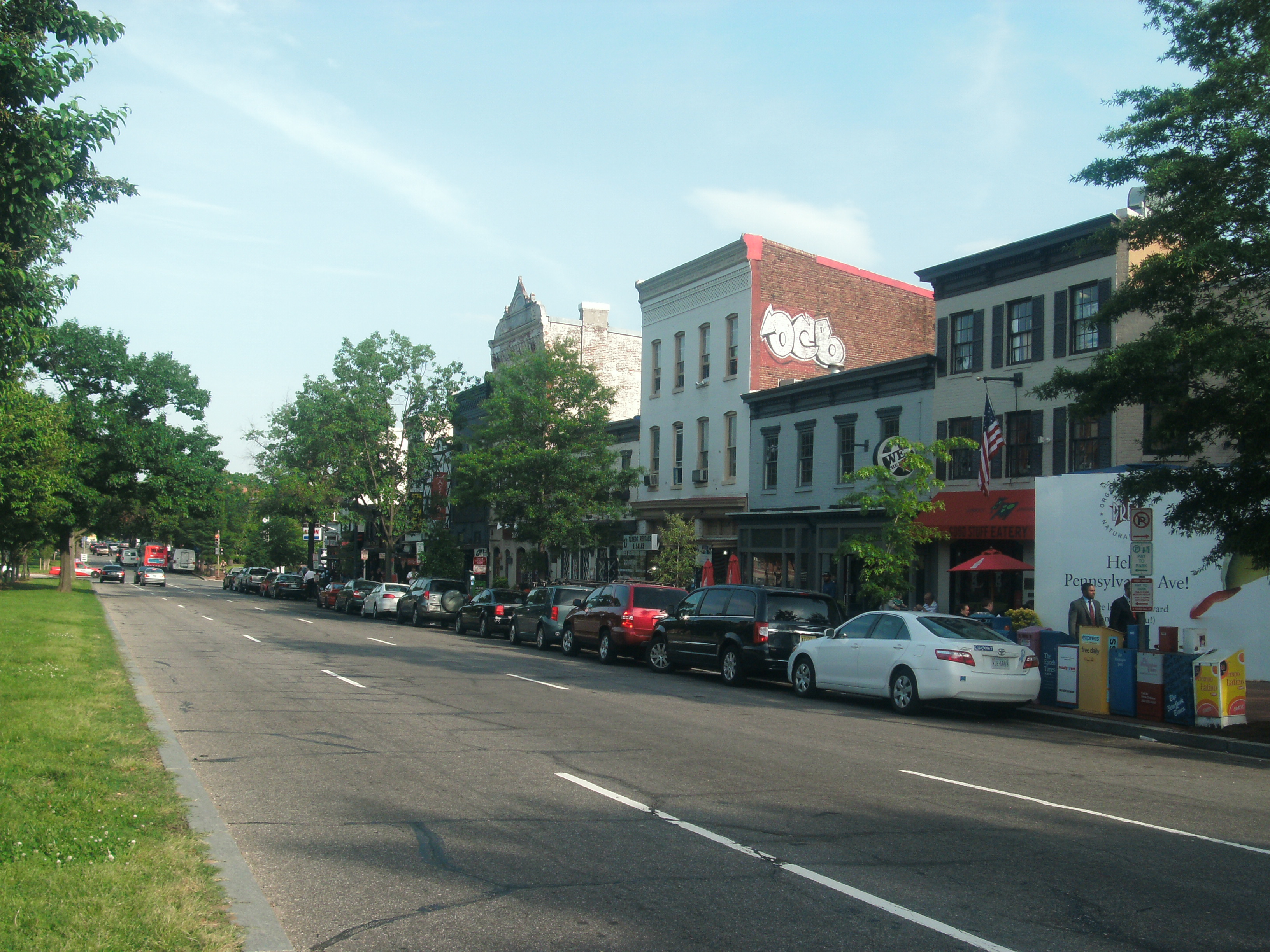 Capitol Hill, Washington, DC GEDSC DIGITAL CAMERA